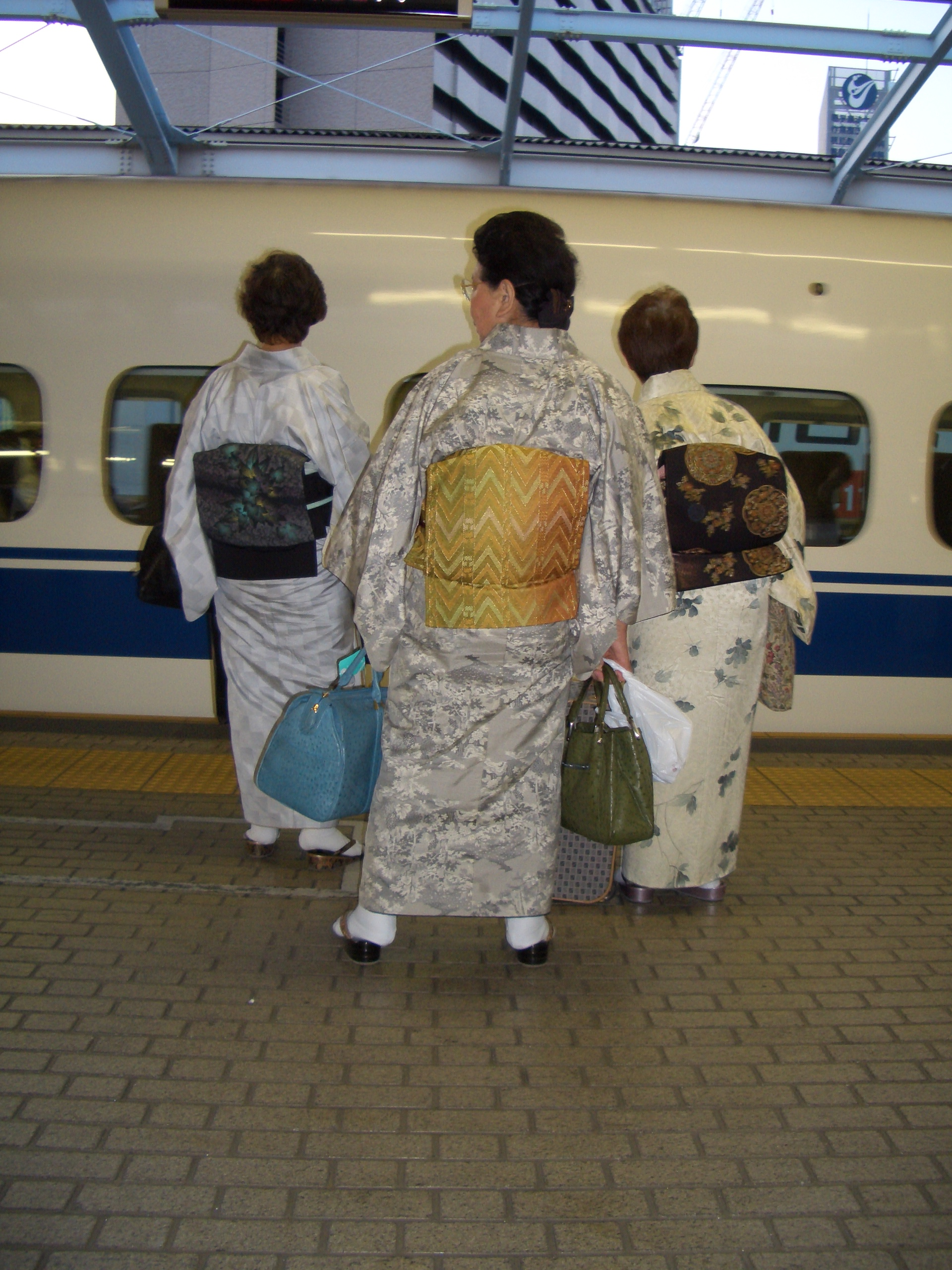 I took this photo at Tokyo train station in May 2005. Three women in traditional kimonos were waiting for the Shinkansen to Osaka.